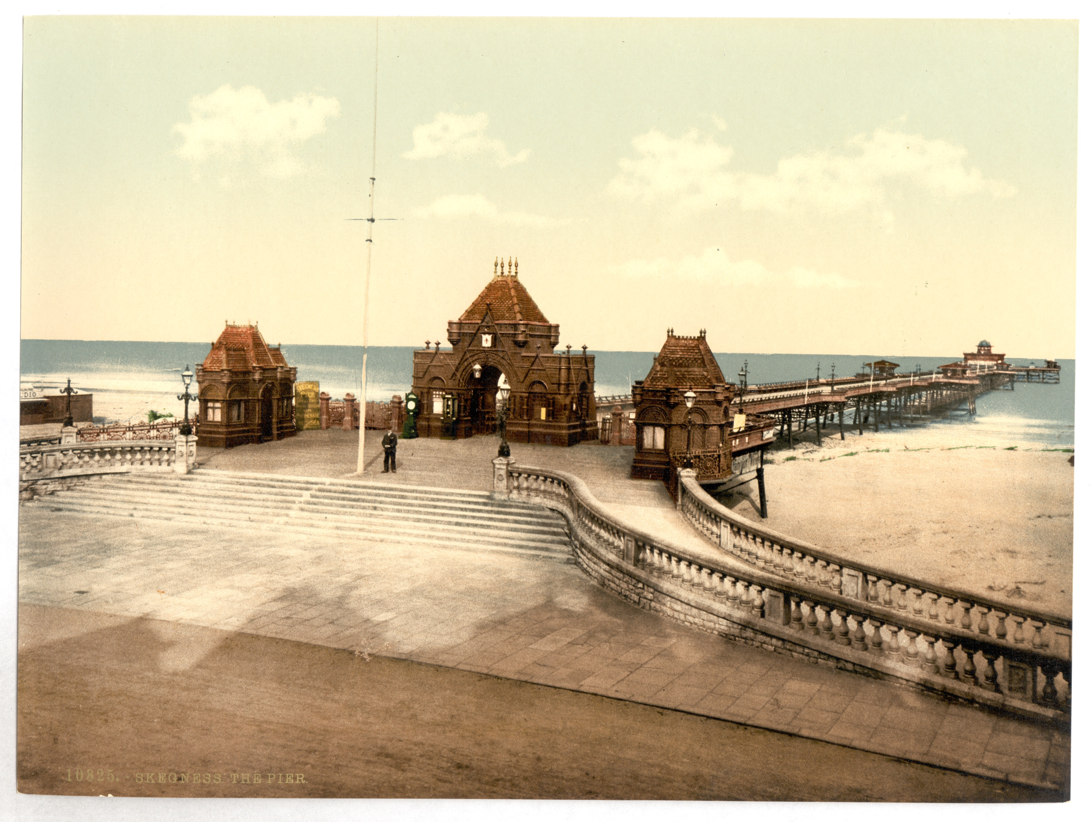 Forms part of: Views of the British Isles, in the Photochrom print collection.; More information about the Photochrom Print Collection is available at Title from the Detroit Publishing Co., Catalogue J-foreign section, Detroit, Mich. : Detroit Publishing Company, 1905.; Print no. "10825".